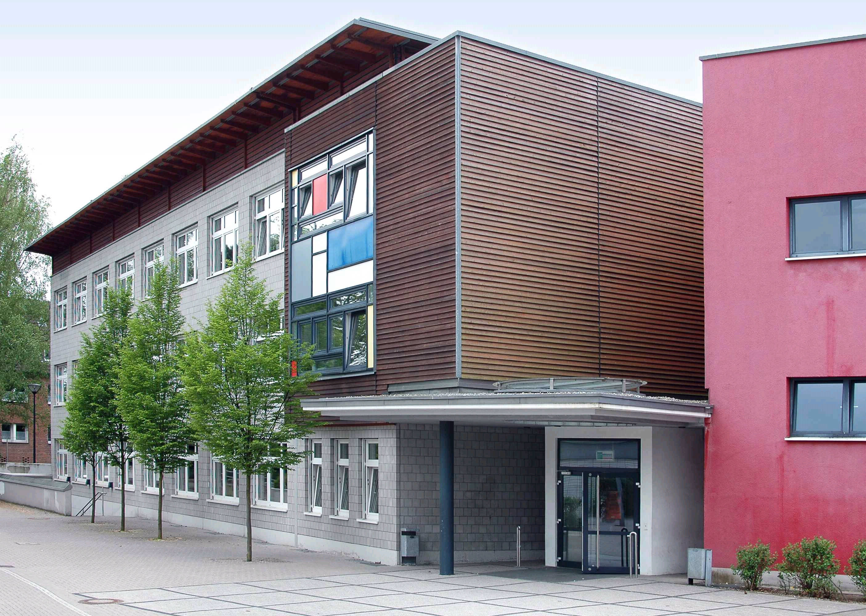 New building at Josef Albers Gymnasium (secondary school) in Bottrop, North Rhine-Westphalia, Germany